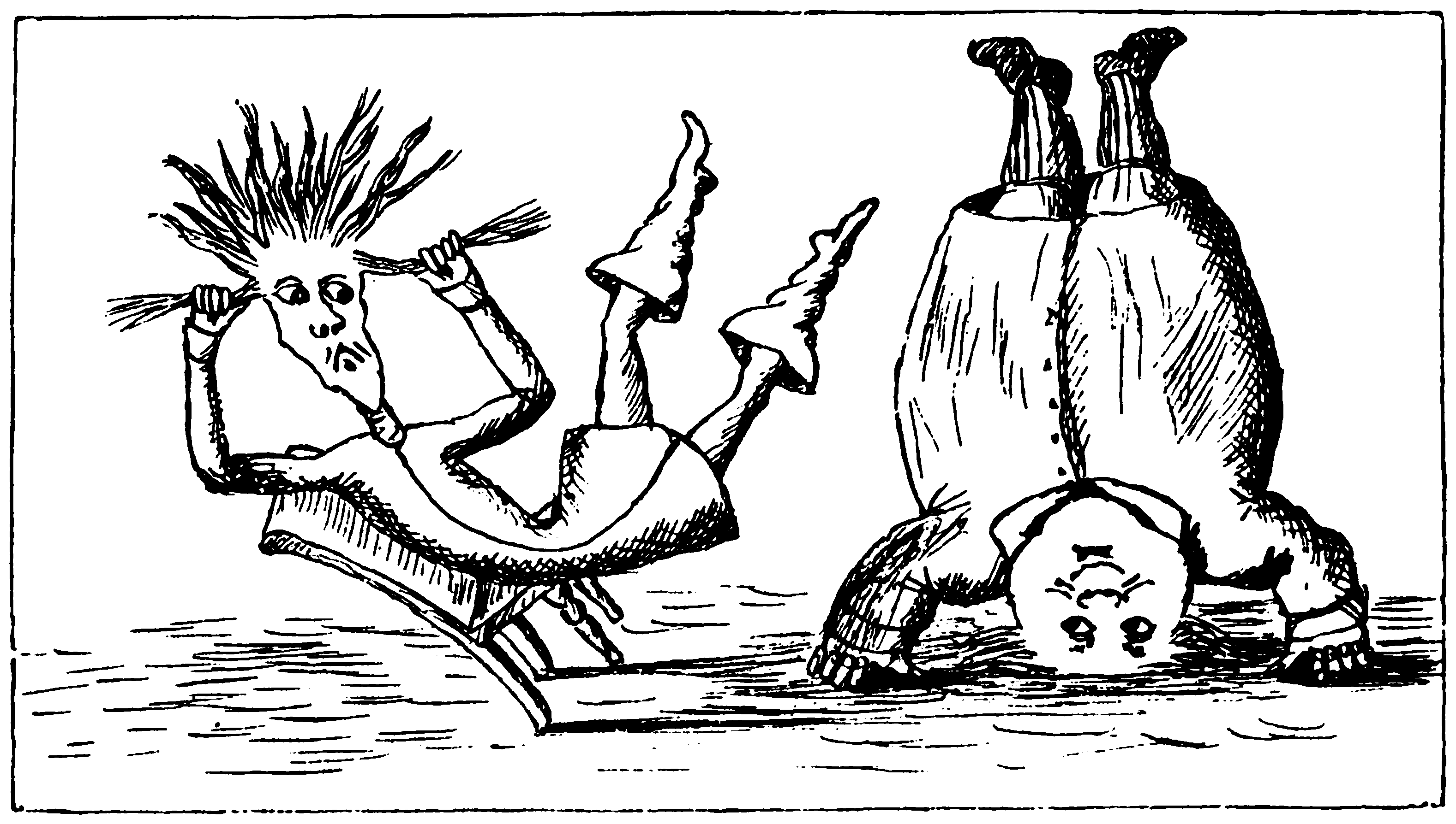 Illustration from page 52